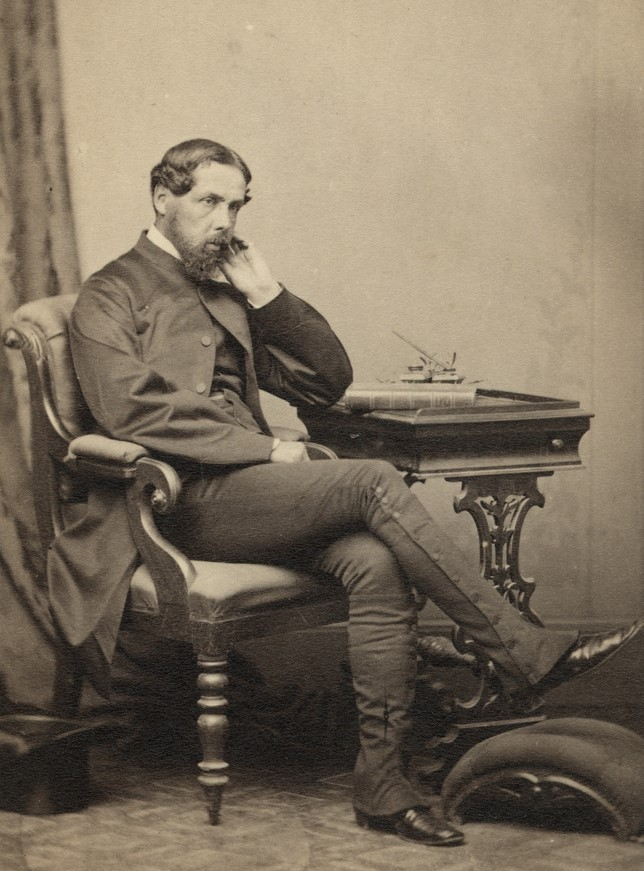 Portrait of Nowell Twopeny.